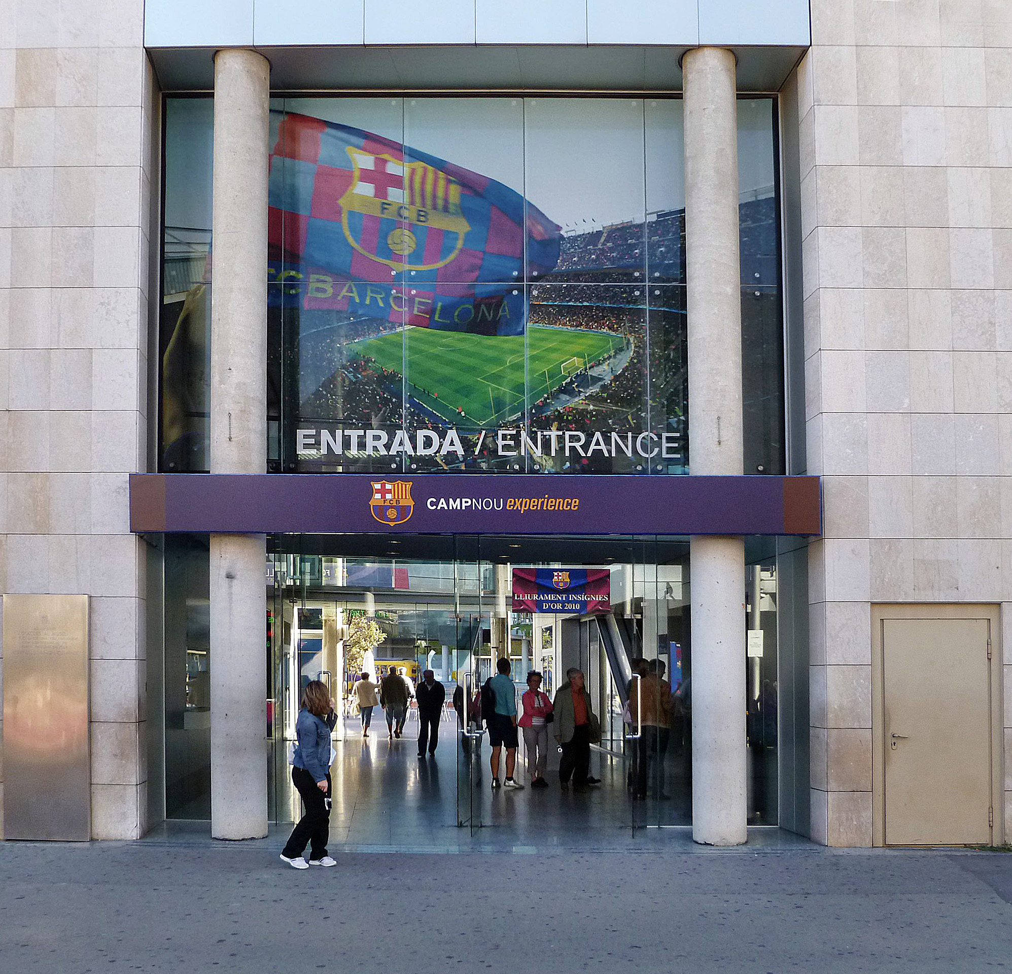 Entrance to Camp Nou, football stadium of F.C. Barcelona, Barcelona, Catalonia, Spain